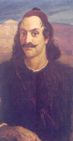 Fighter of the Greek Revolution 1821 (1791-1826)